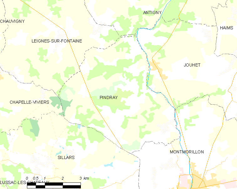 Map of French municipality Pindray